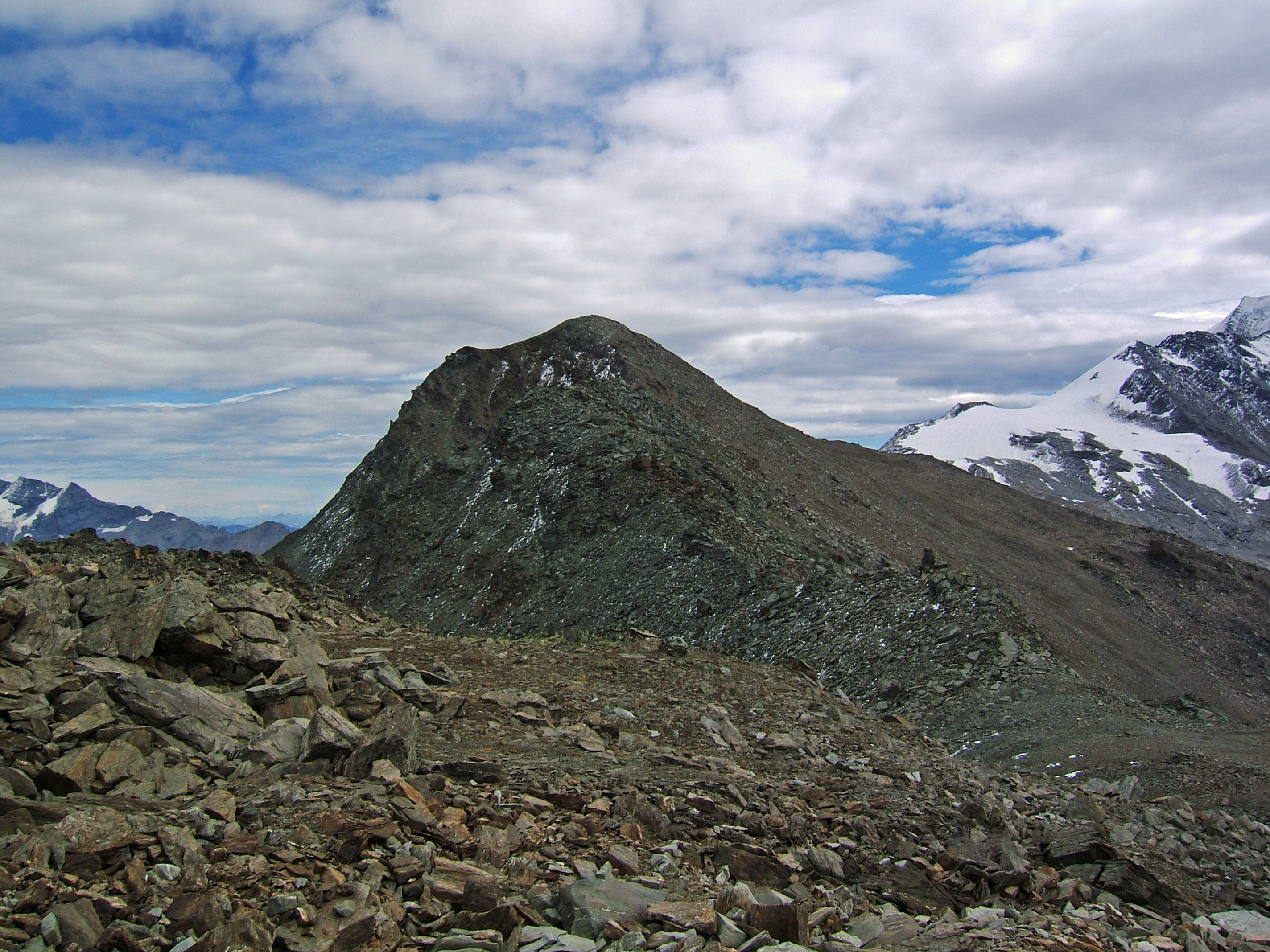 Mattwaldhorn from west, from Simelihorn